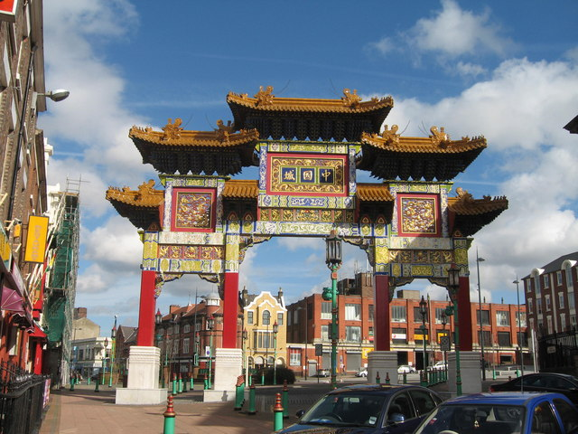 Chinese Arch The Chinese Arch was a Liverpool initiative completed in 2000 and built by craftsmen of Liverpool's sister city Shanghai and shipped from China piece by piece. Spanning Nelson Street, at over 14 feet it is reportedly the biggest Chinese Arch outside of Asia. With its 200 Dragons, five roofs and sheer complexity it is well worth taking the time to view this huge structure. Protected by two bronze lions, and placed correctly with the principles of Feng Shui, the archway in all its glory simply states one thing, Zhong Guo Cheng or simply translated "Chinatown."